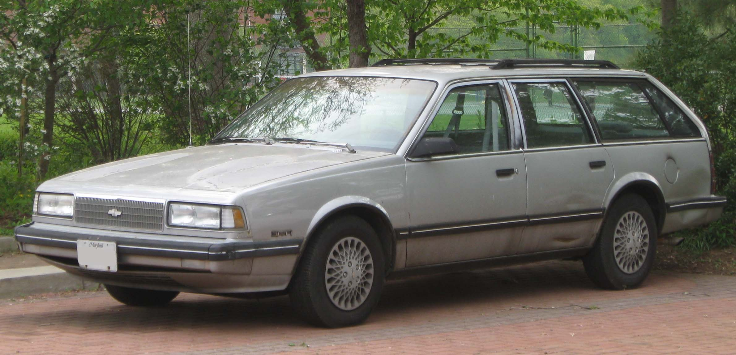 1990 Chevrolet Celebrity photographed in Annapolis, Maryland, USA.